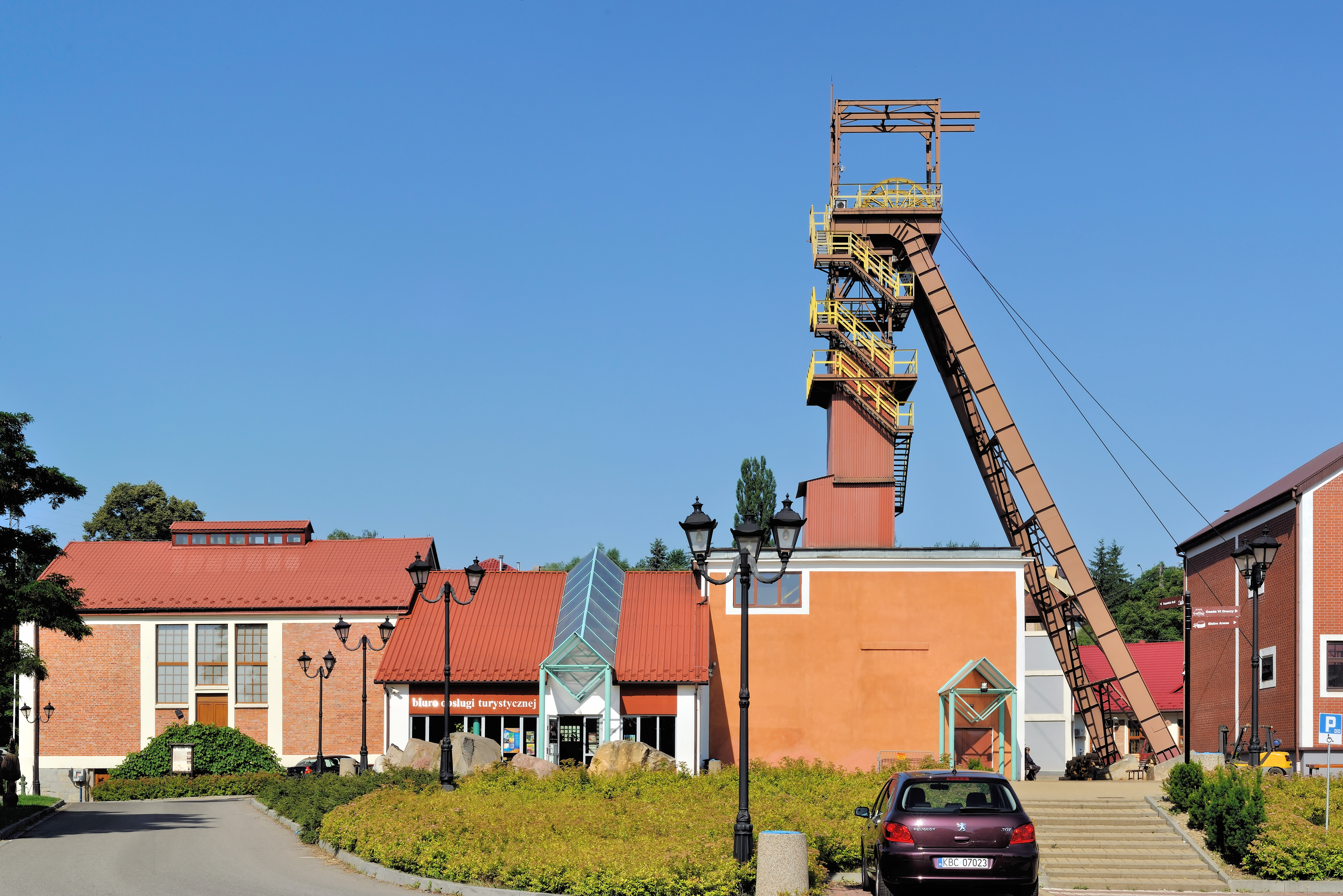 Bochnia Salt Mine, The Campi Shaft